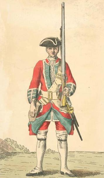 Soldier of the 39th regiment (1742)